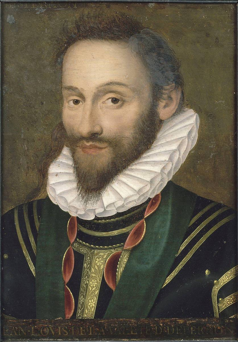 Jean Louis de Nogaret de La Valette (1554-1642), French admiral